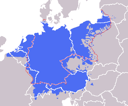 This is a cutout view of